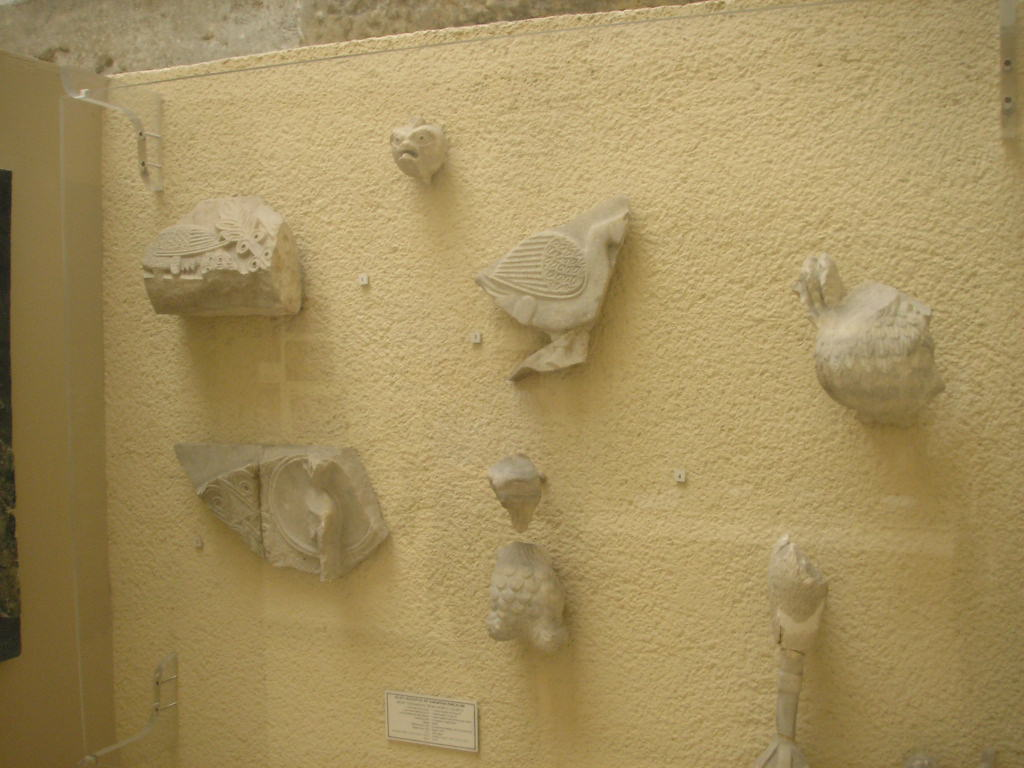 Relief fragments from the the North Church. 1. Cornice fragment with peacock. 2. relief fragments of peacock. 3. relief fragments with bird from aspe. 4. fragment of eagle figures. Marble. Excavations in 1929 and 1966. 10th century.